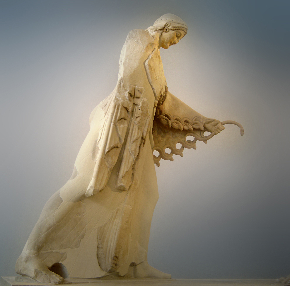 Colossal statue of Athena, from the Gigantomachy group